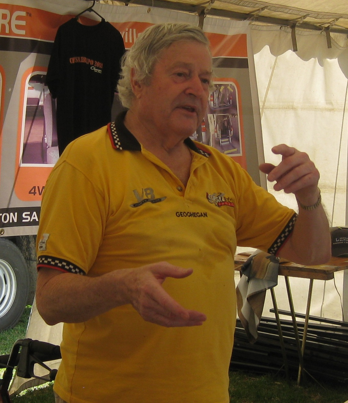 Leo Geoghegan, pictured at the All Chrysler Day at Lockleys in South Australia on 27 February, 2011. Geoghegan was the winner of various Australian motor racing titles including the 1970 Australian Drivers' Championship.